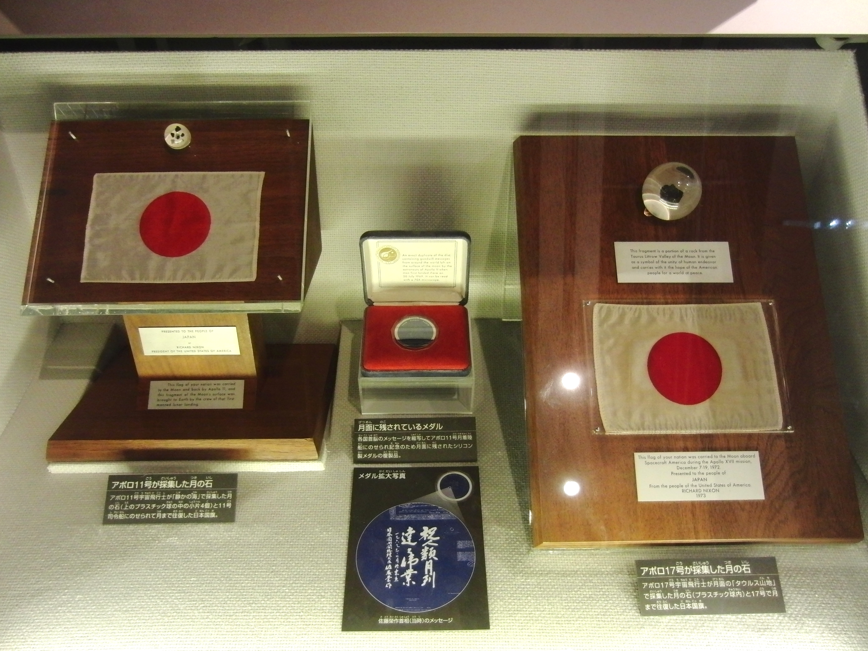 Moon rock exhibited in National Museum of Nature and Science, Tokyo, Japan.Collected by Apollo 11 and by Apollo 17.